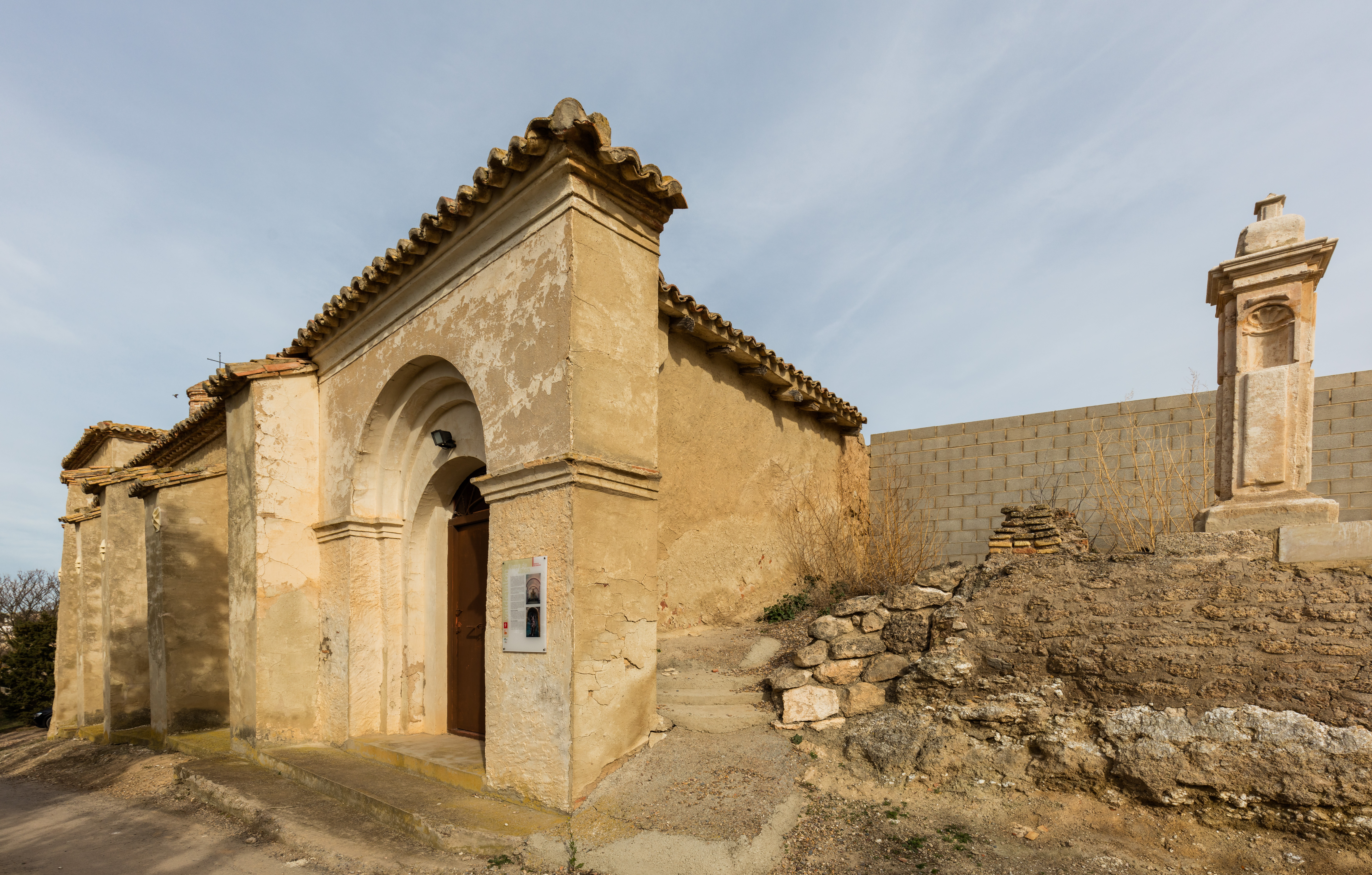 Hermitage and wayside cross of San Sebastián, Urrea de Jalón, Zaragoza, Spain